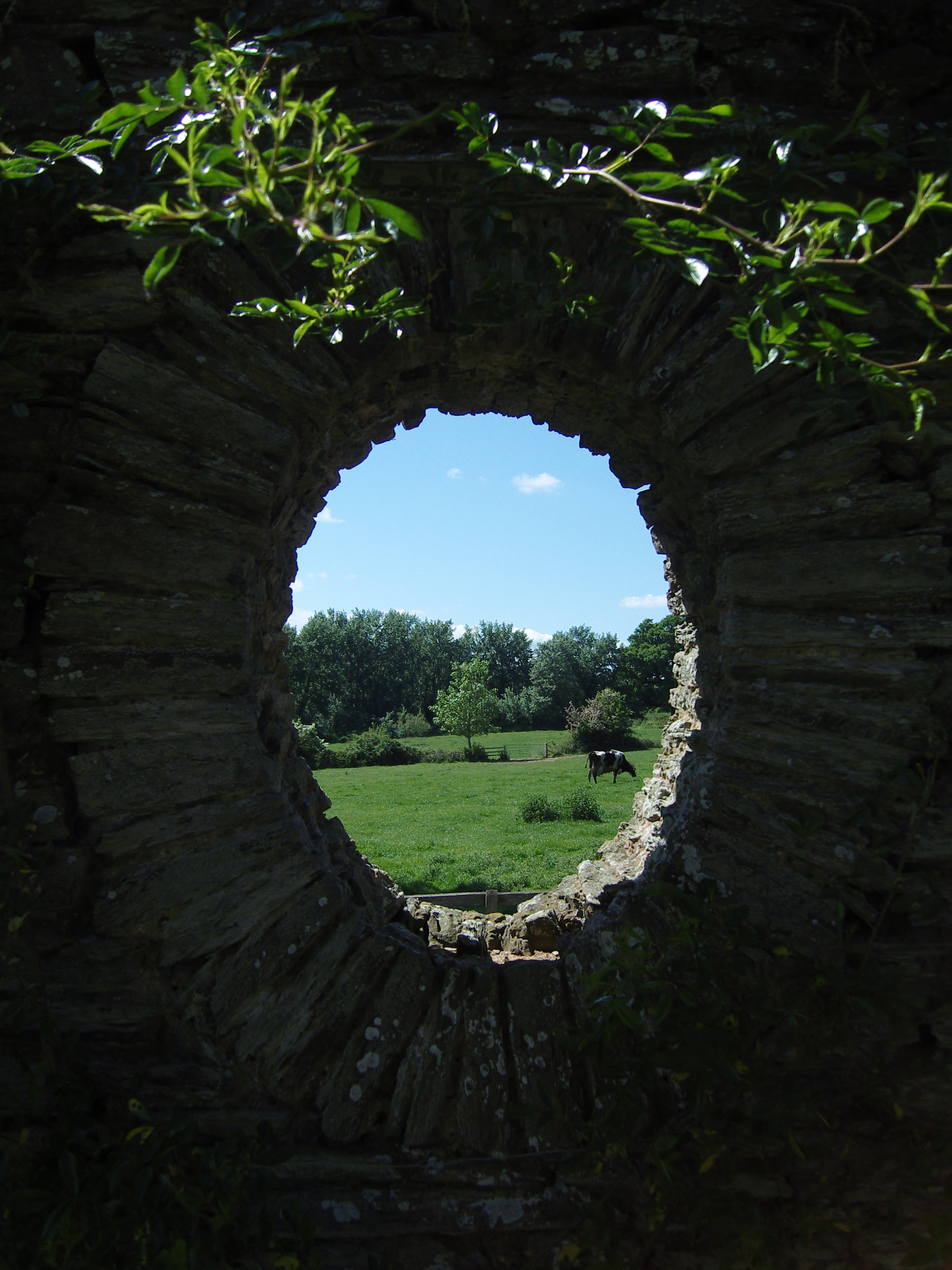 Oval opening in a wall in Hestercombe Gardens